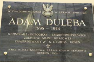 Tablica upamiętniająca legionistę Adama Dulębę.